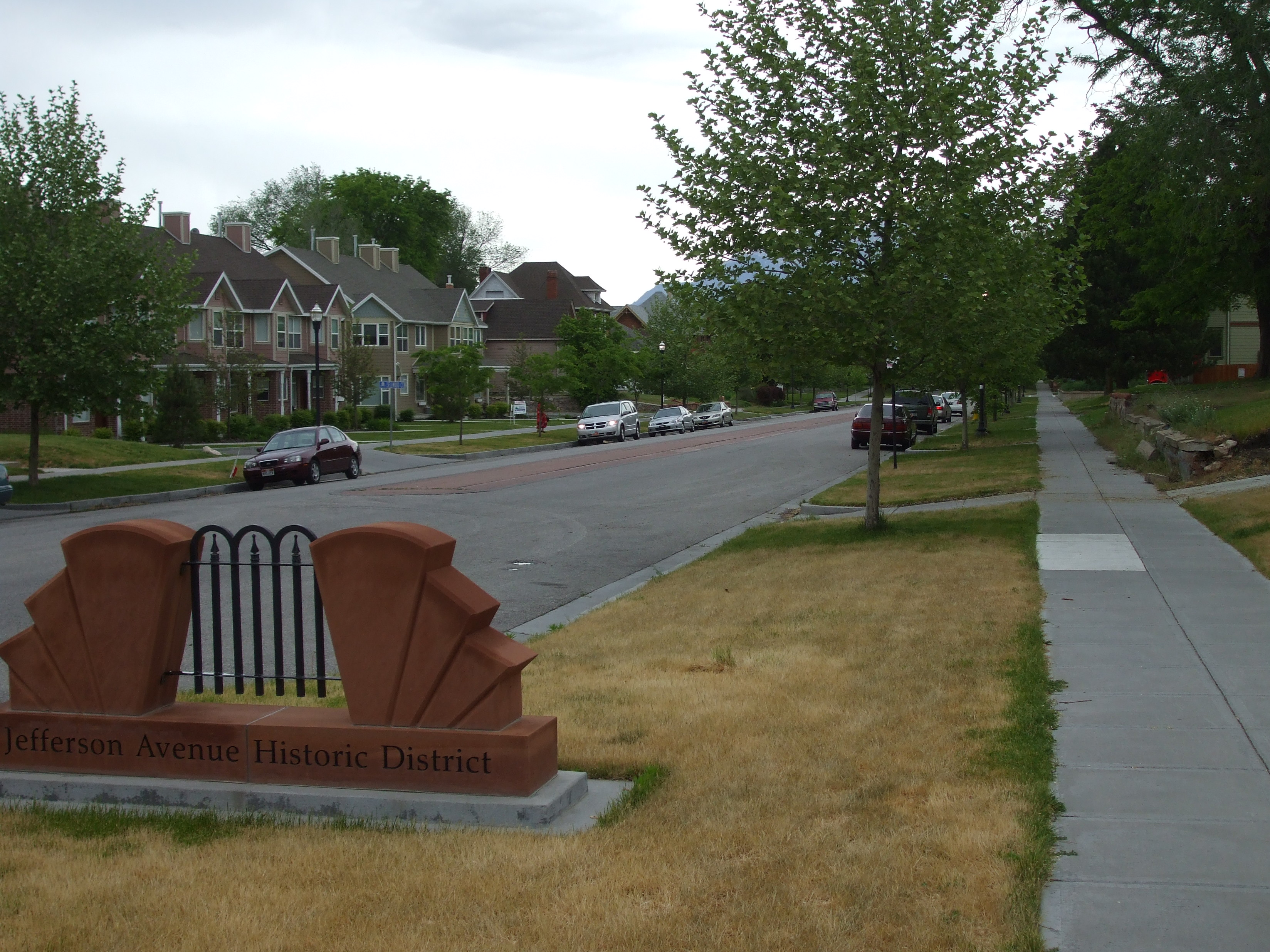 The 27th Street southern entrance to the Jefferson Avenue Historic District in Ogden, Utah, United States.